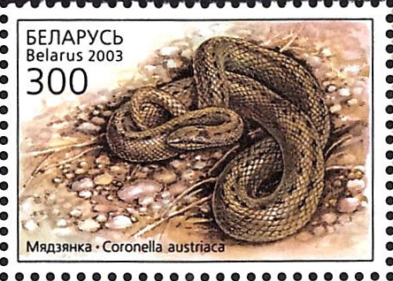 Stamp of Belarus